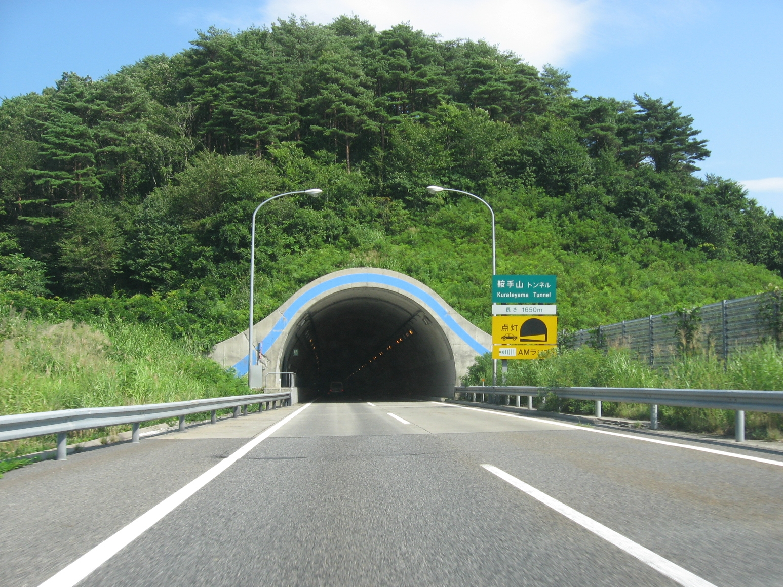 Kurateyama-tunnel on the Ban-etsu Expwy in Fukushima prefecture, Japan.